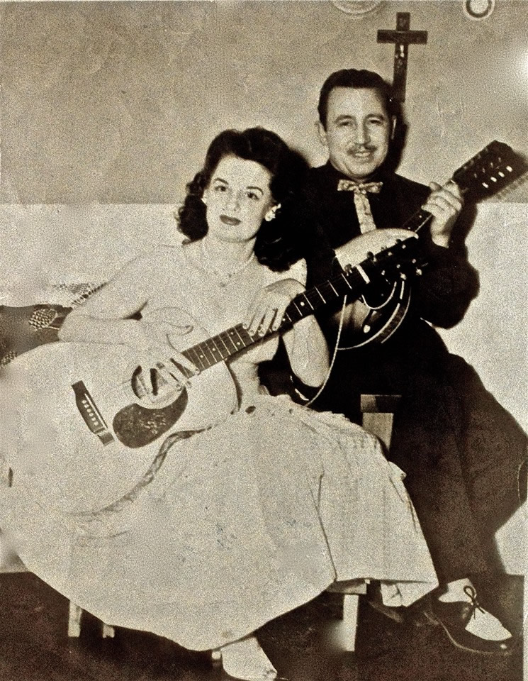 Southern Gospel singers, Billie and Gordon Hamrick, best known for their decade runnning local TV show on WUSN (now WCBD) in Charleston, S.C (1955-65).